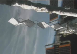 The crew of ISS unfolds the Radiator of Truss P4 .